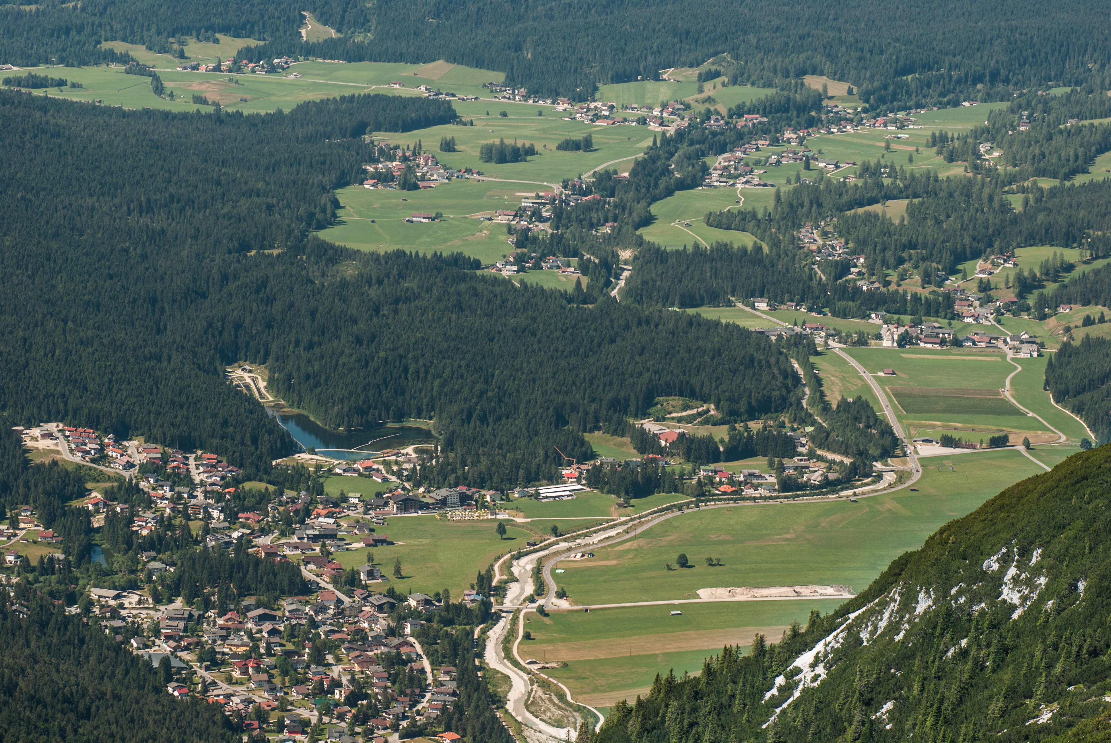 View from Arnplattenspitze to the southwestern parts of Leutasch with Weidach at the left